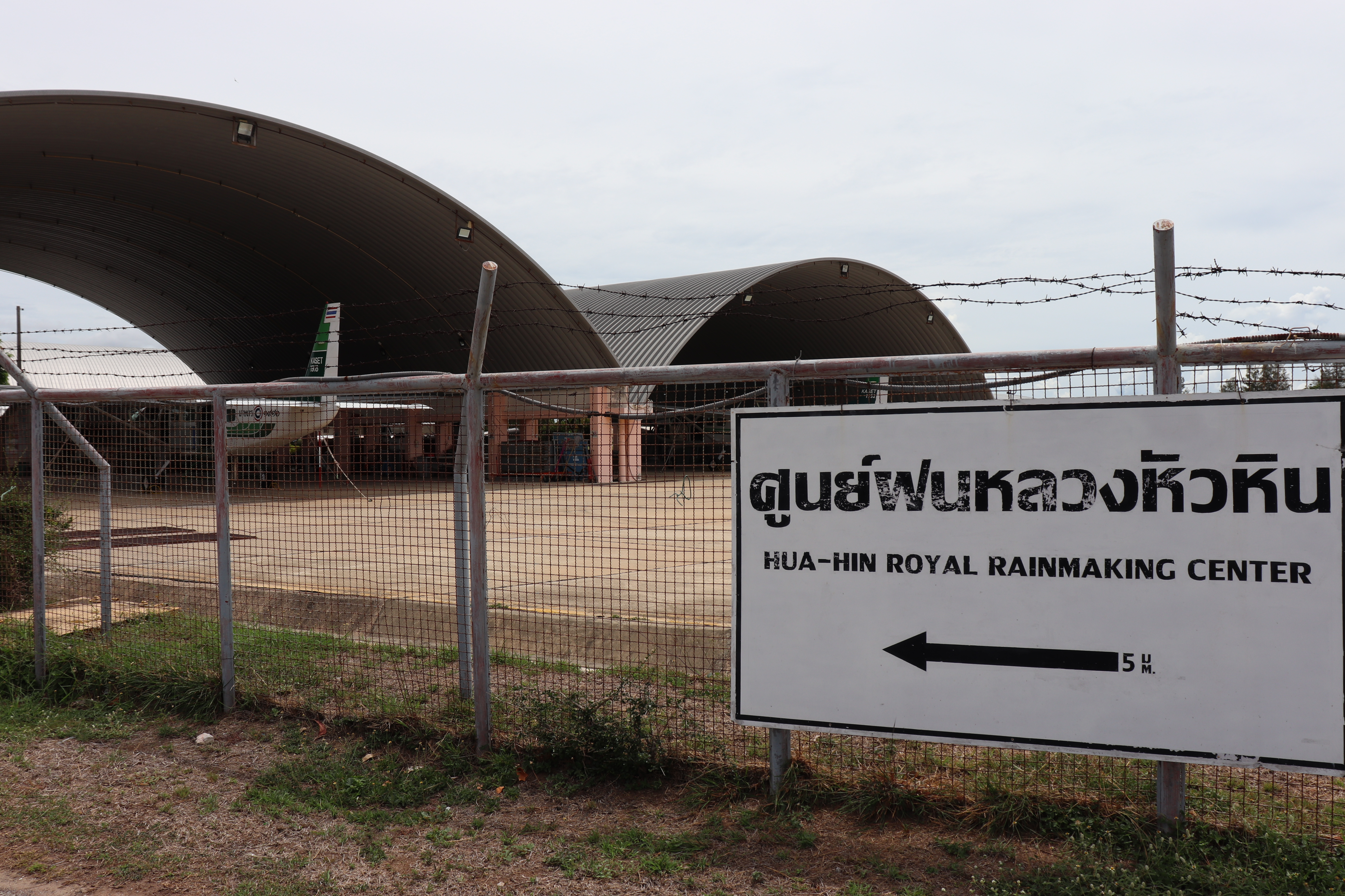 Hua Hin Royal Rainmaking Center